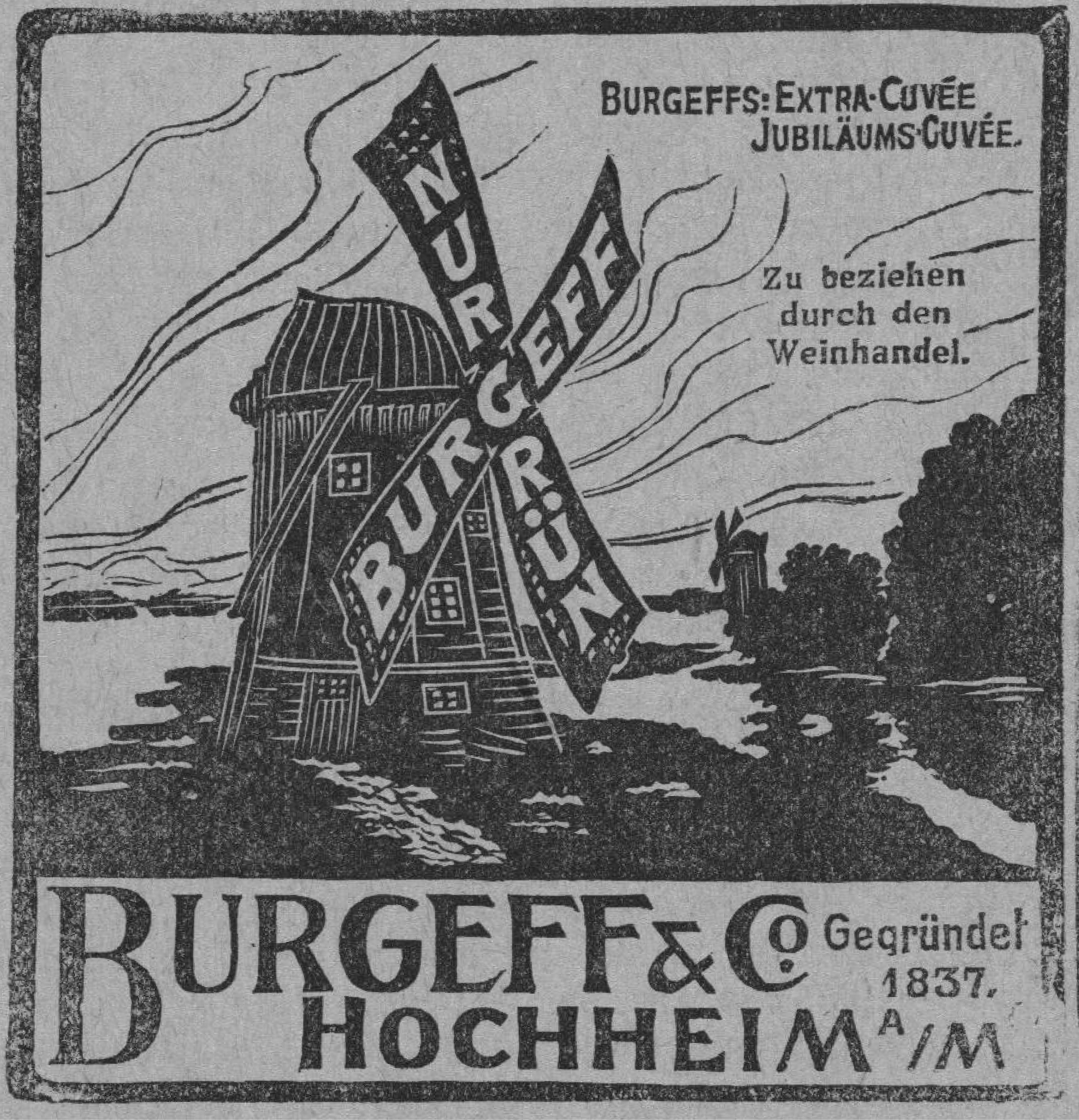 Scan from the Dresdner Journal, 1906